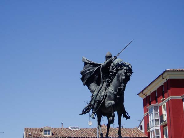 In Burgos (Spain), the statue of "the Cid", hero of the city.